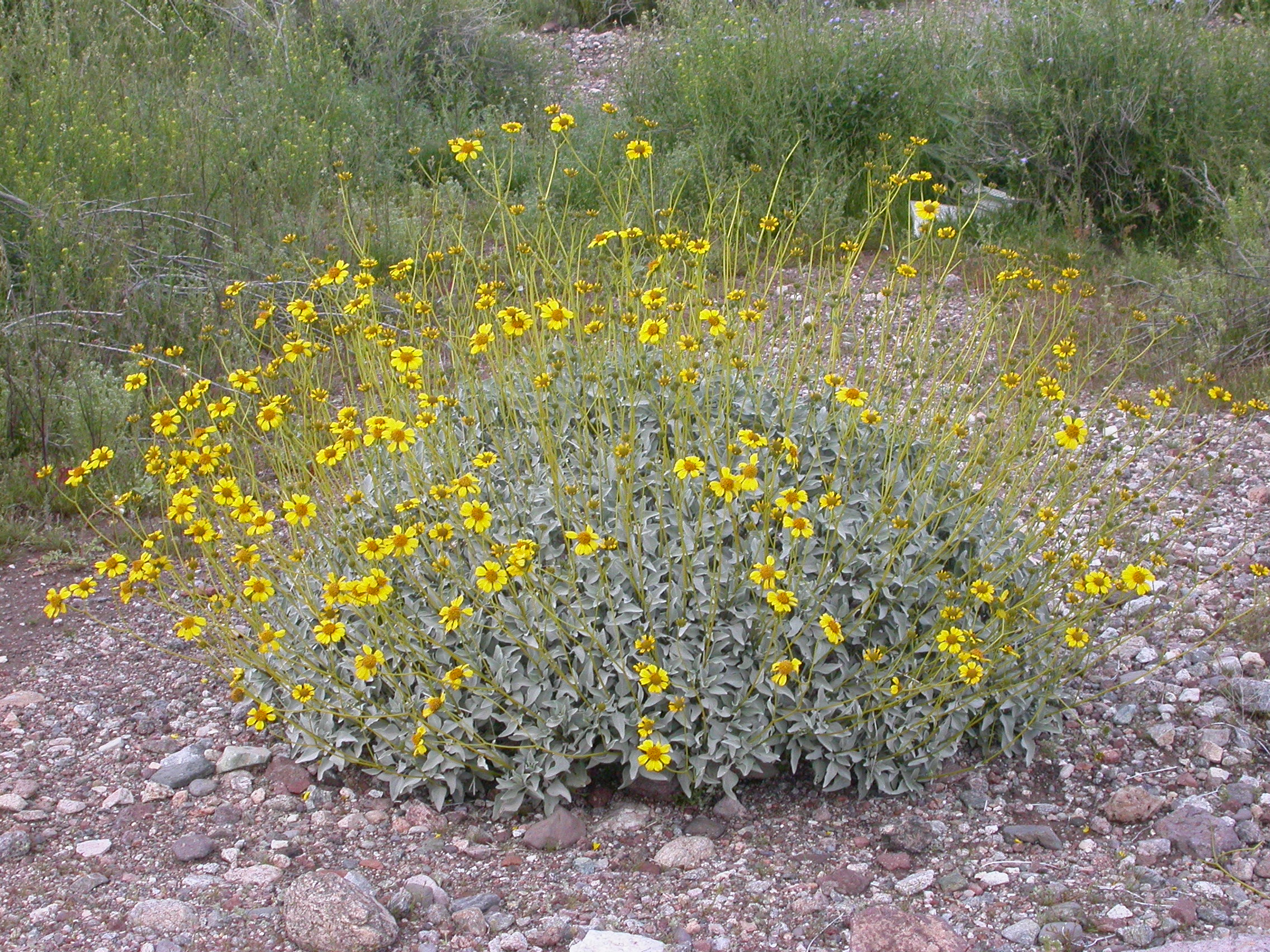 Encelia farinosa East of Needles, CA